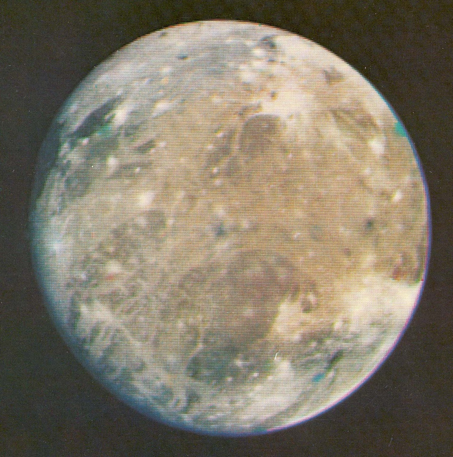 Voyager 1 took this picture of Ganymede from a distance of 1.6million miles. Ganymede is Jupiter's largest satellite with aradius of approximately 2600 kilometers, about 1.5 times thatof Earth's Moon. Ganymede is the seventh and largest ofJupiter's known satellites and is the third of the Galileanmoons. Discovered in 1610 by Galileo and Marius, Ganymede is the largest satellite in the Solar System. It was named after theGreek mythical character, Ganymede, a handsome Trojan boy that Zeus took to Olympus to be a cupbearer for the gods(one of the only humans in Greek mythology who became immortal). Ganymede is larger than Mercury but has only halfMercury's mass. It has a bulk density of only two gramsper cubic centimeter, almost half that of Earth's Moon. Ganymede is most likely composed of a mixture of rock and ice. The long white filaments resemble rays associated with impactson the lunar surface. The various colors of different regionsprobably represent differing surface materials. Several dots of a single color (blue, green, and orange) on the picture arethe result of markings on the camera used for pointing determinations and are not physical markings. Voyager scientists discovered that Ganymede has its own magnetosphereembedded inside Jupiter's large one. JPL manages and controlsthe Voyager Project for NASA's Office of Space Science.